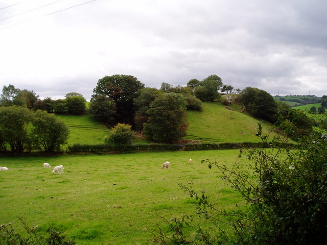 Hillside near Maerdy. A craggy outcrop at the southern end of Craig Arthbry.